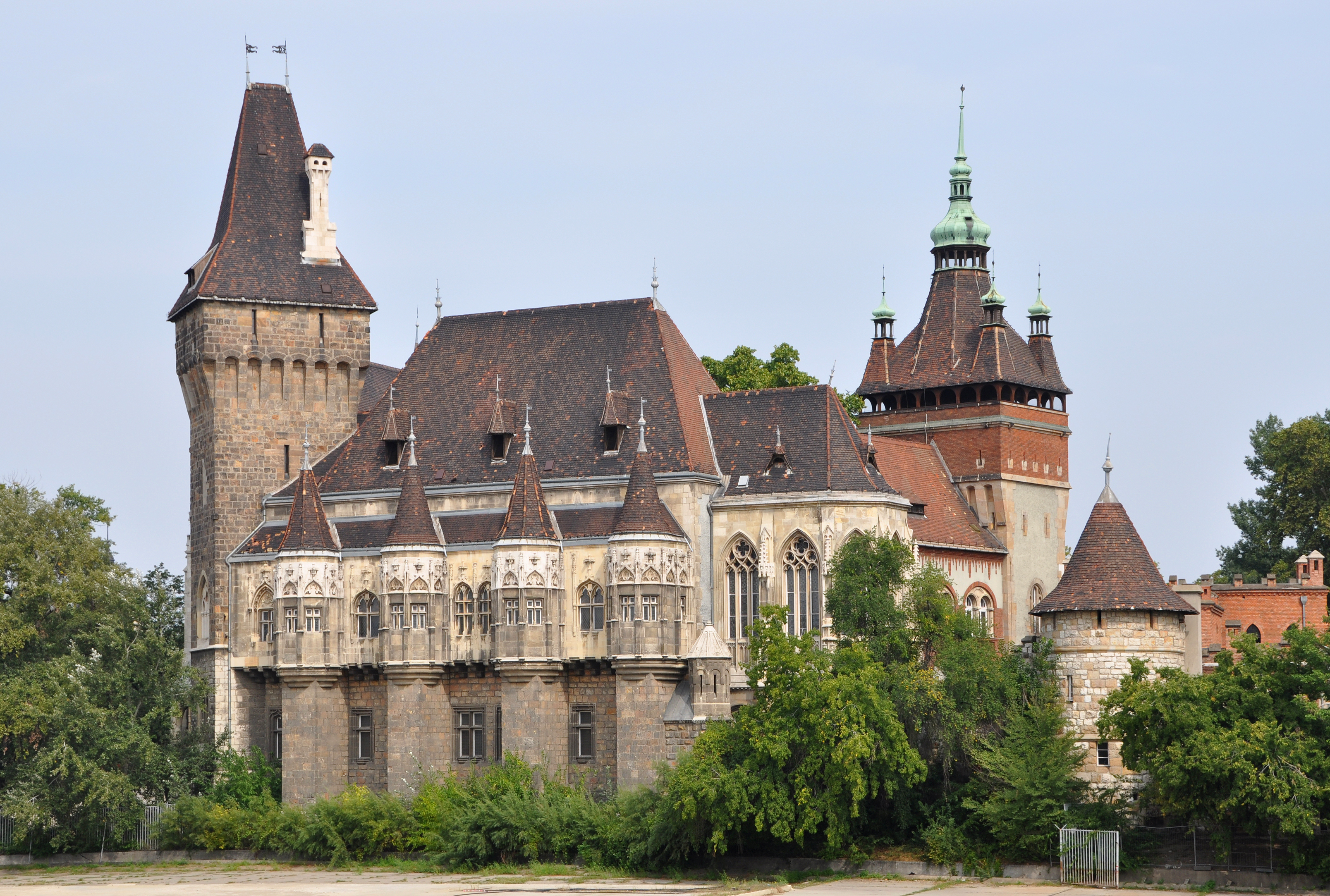 Budapest (Hungary): Vajdahunyad Castle